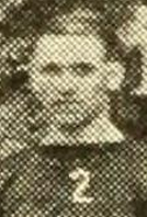 J. DuMoe, Coach